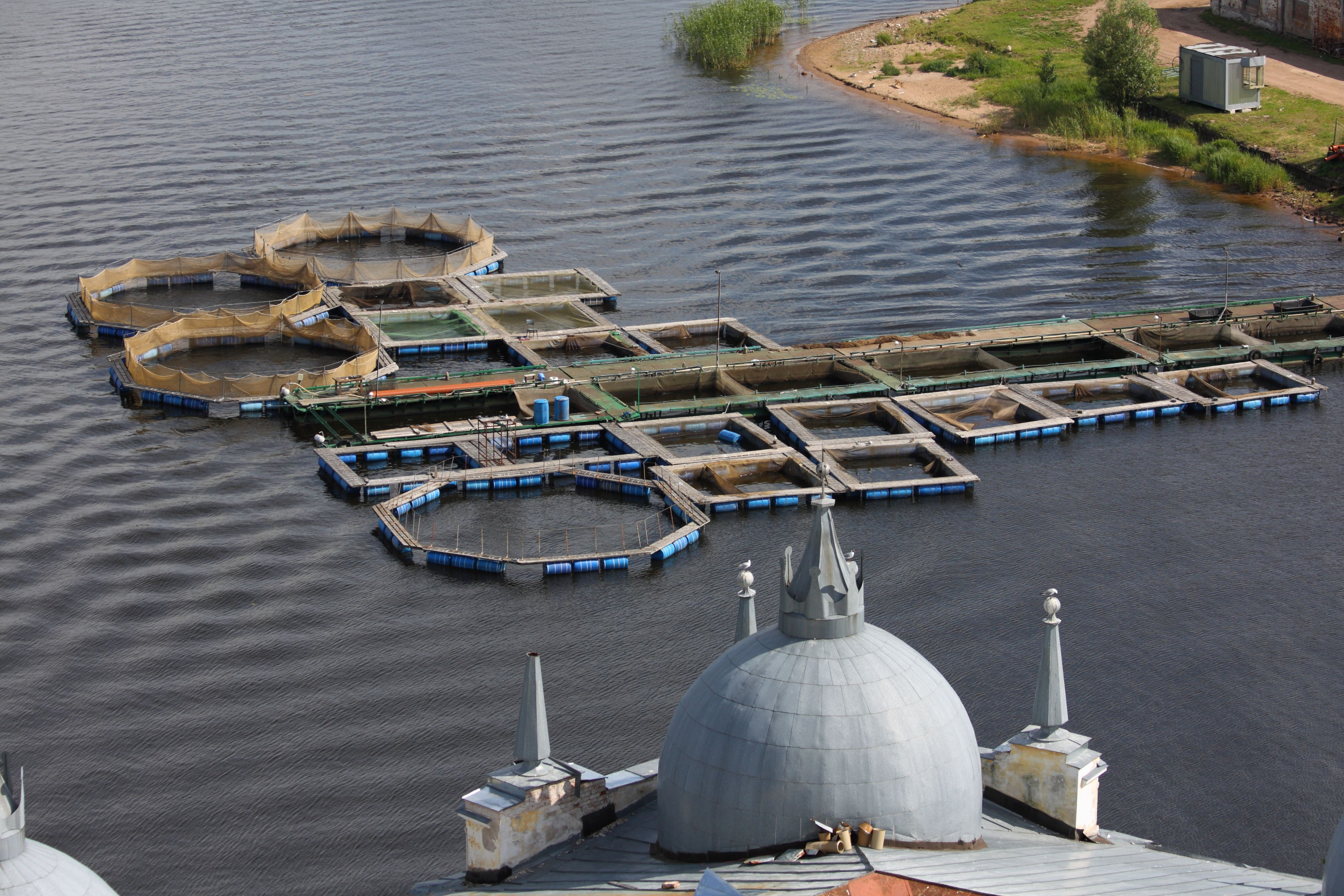 Cages for breeding fish. Nilo-Stolobensky monastery (Seliger, Russia)